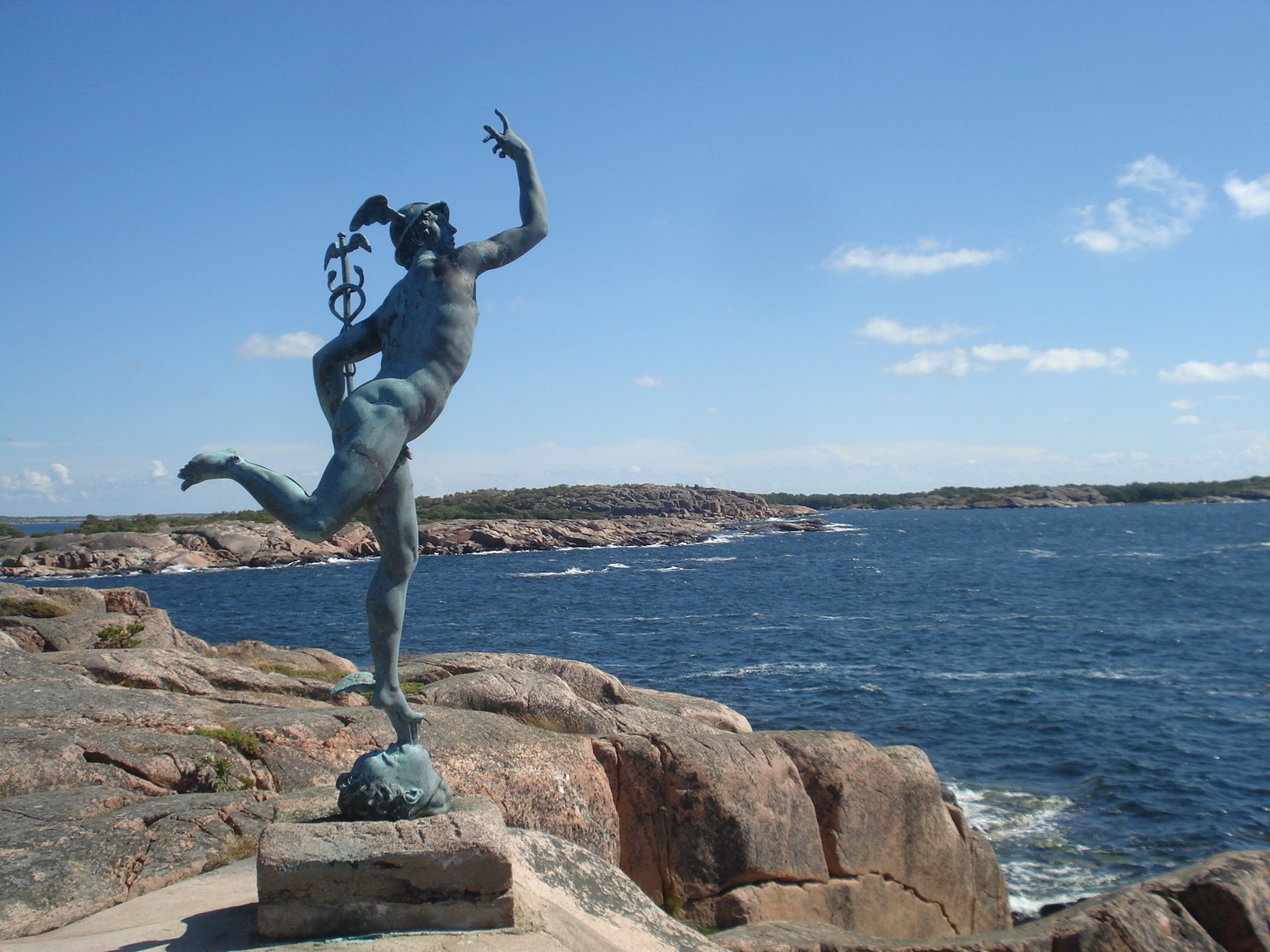 Replica of the famous statue by Giovanni da Bologna on island of Källskär, locality of Kökar, Åland archipelago, Finland